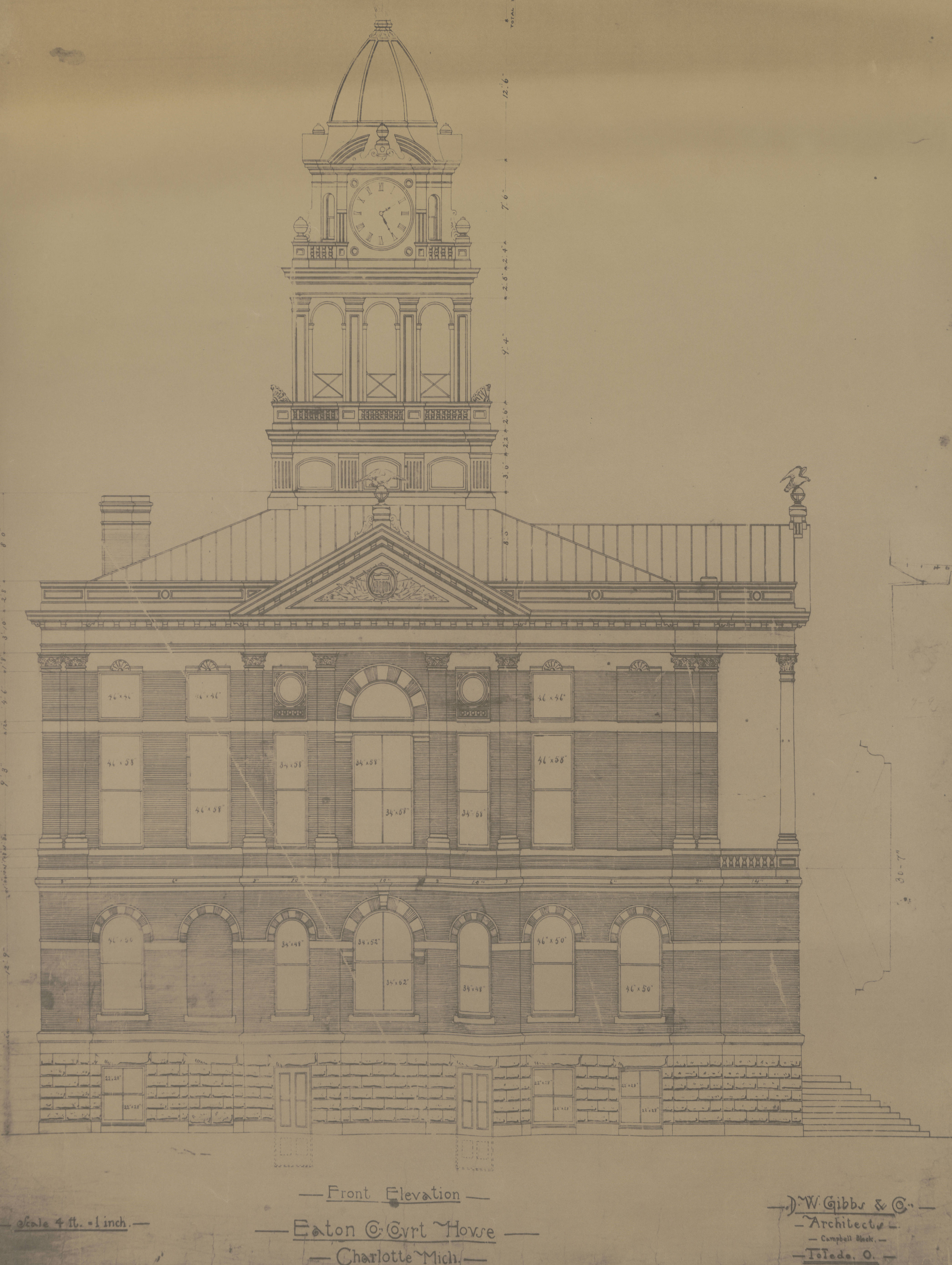 Architectural drawings for the Eaton County Courthouse. The drawings are all reproductions, and were created by the David W. Gibbs and Company architectural firm working out of Toledo, Ohio. Gibbs was also father-in-law to famed Toledo architect, David L. Stine. The drawings contains no commission number, and includes floorplans and an exterior elevation.